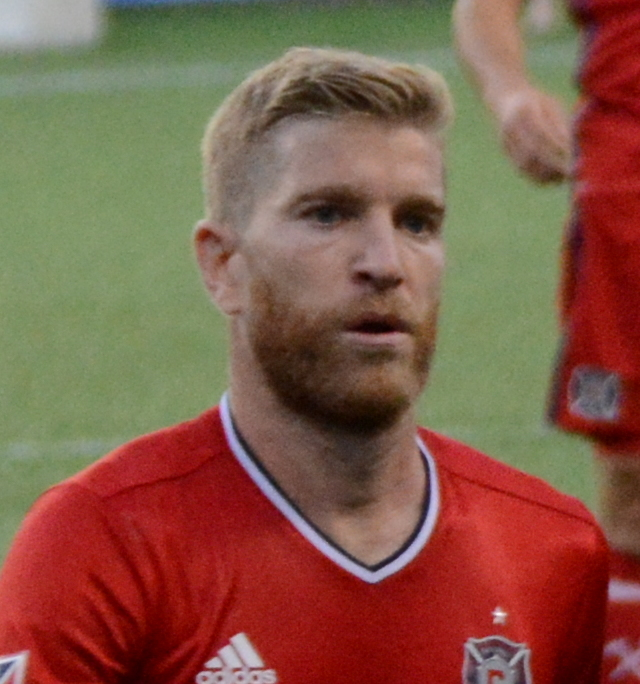 Taken at a U.S. Open Cup match between FC Cincinnati and Chicago Fire SC at Nippert Stadium in Cincinnati, Ohio on June 28, 2017.